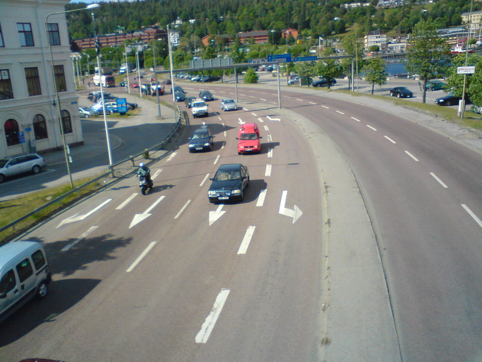 E4 Sundsvall